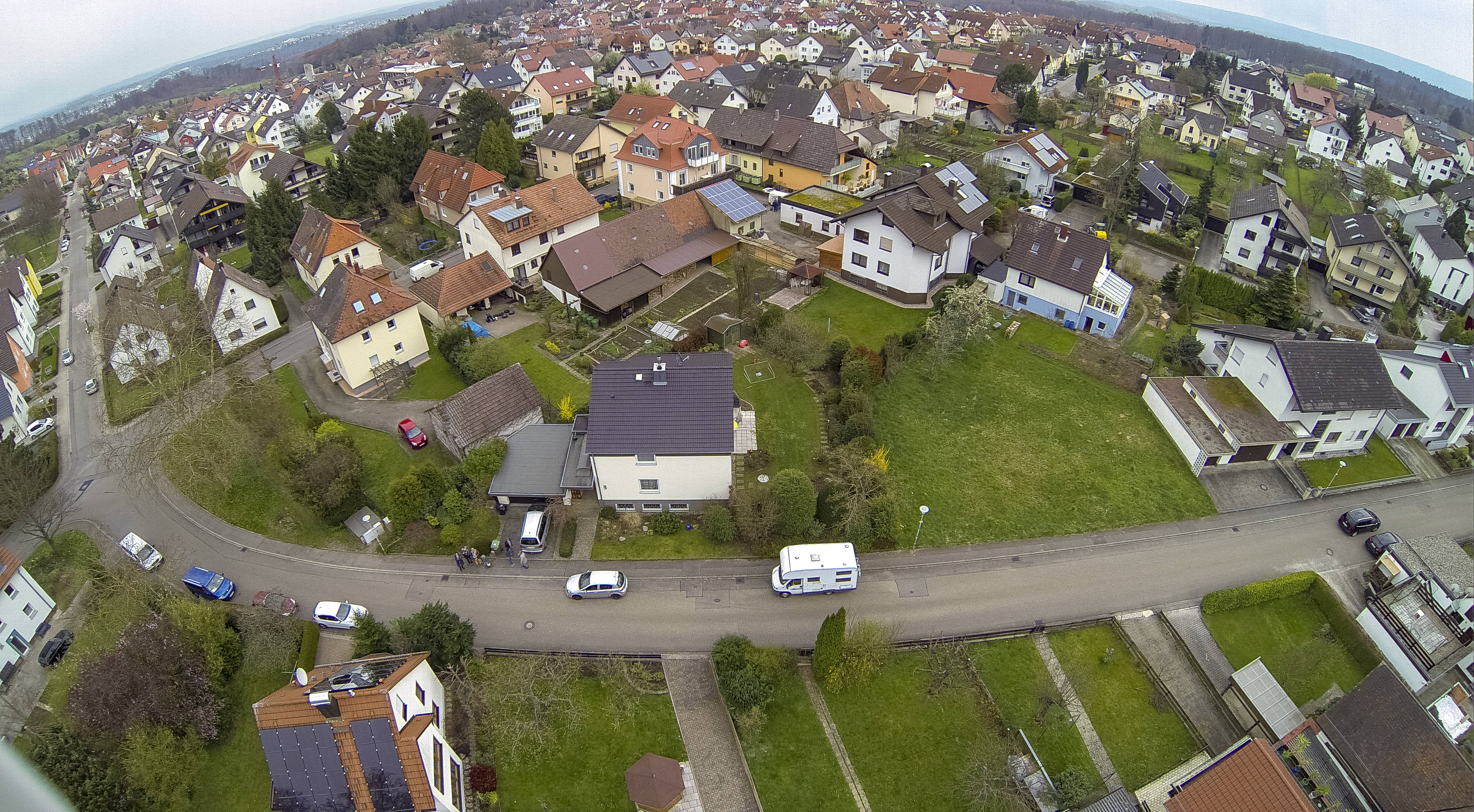 Aerial photo of Spessart (Ettlingen) taken from the western edge of town towards the east.